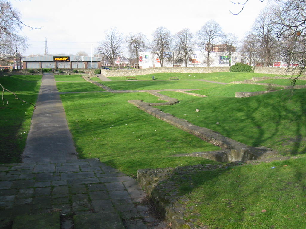 Ruins of Barking Abbey, London Category:Images of Barking & Dagenham